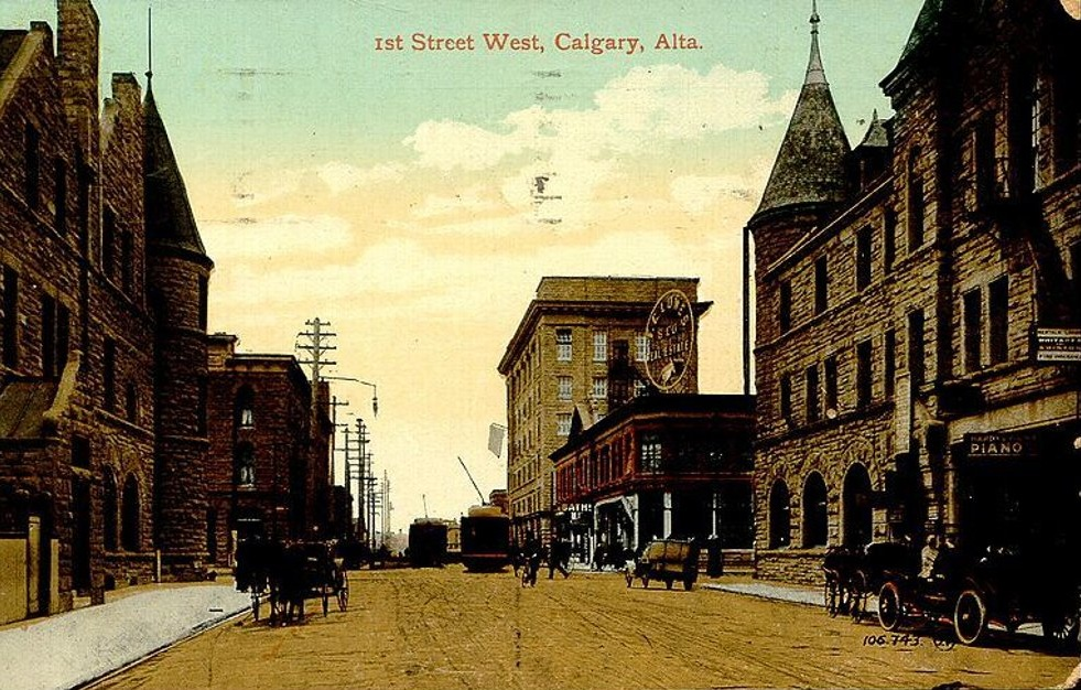 Postcard of 1st Street West, Calgary, Alberta, Canada. Postmarked May 8, 1913.